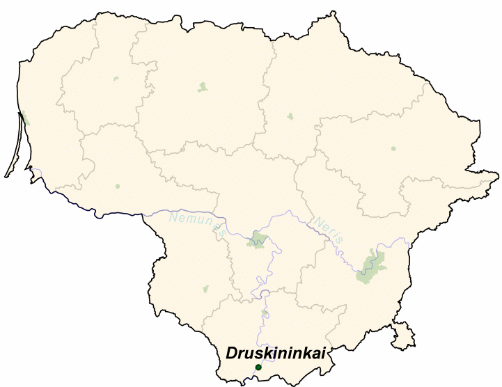 Druskininkai on the map of Lithuania